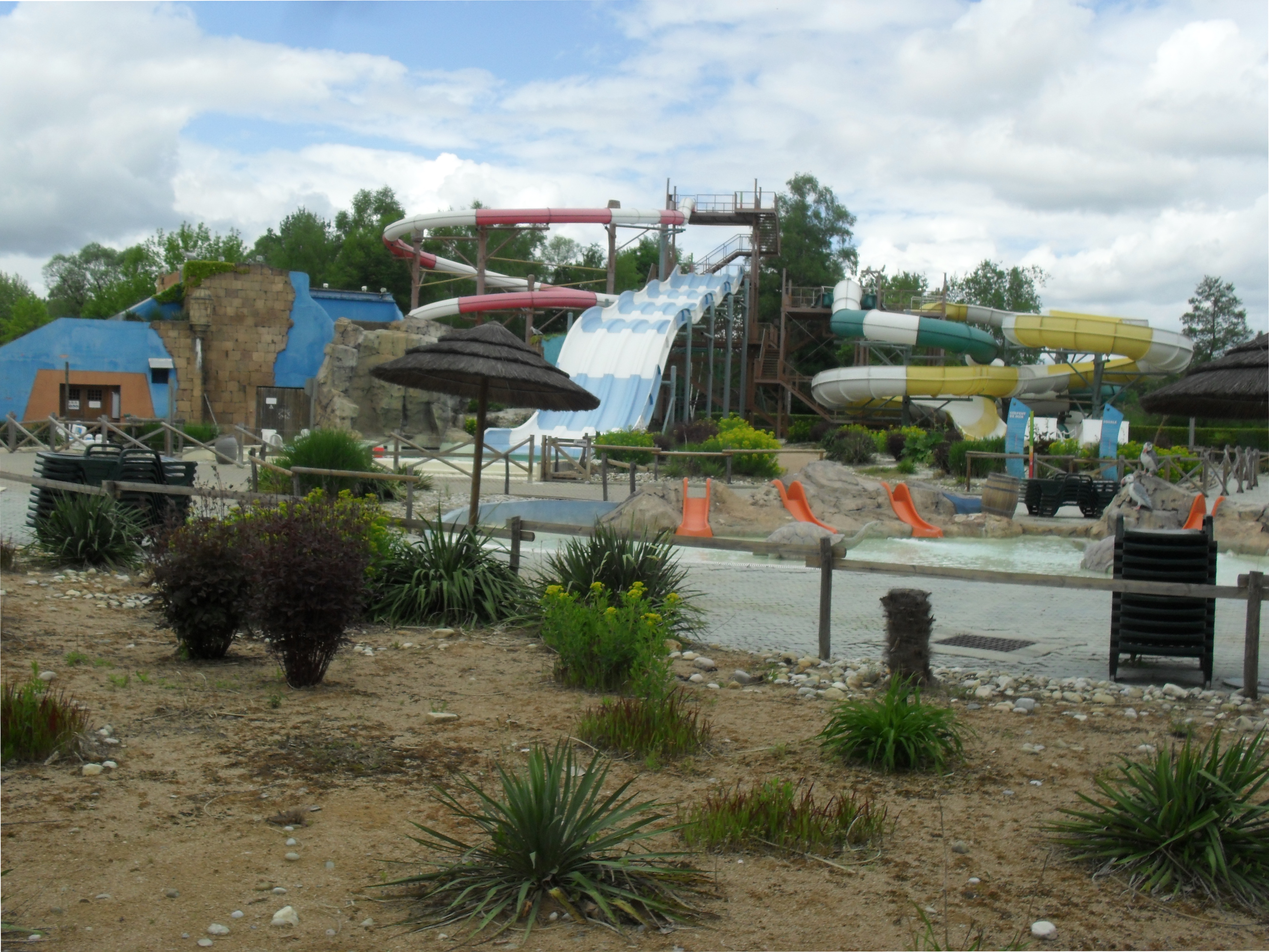 Aqualibi water park at Walibi Rhône-Alpes